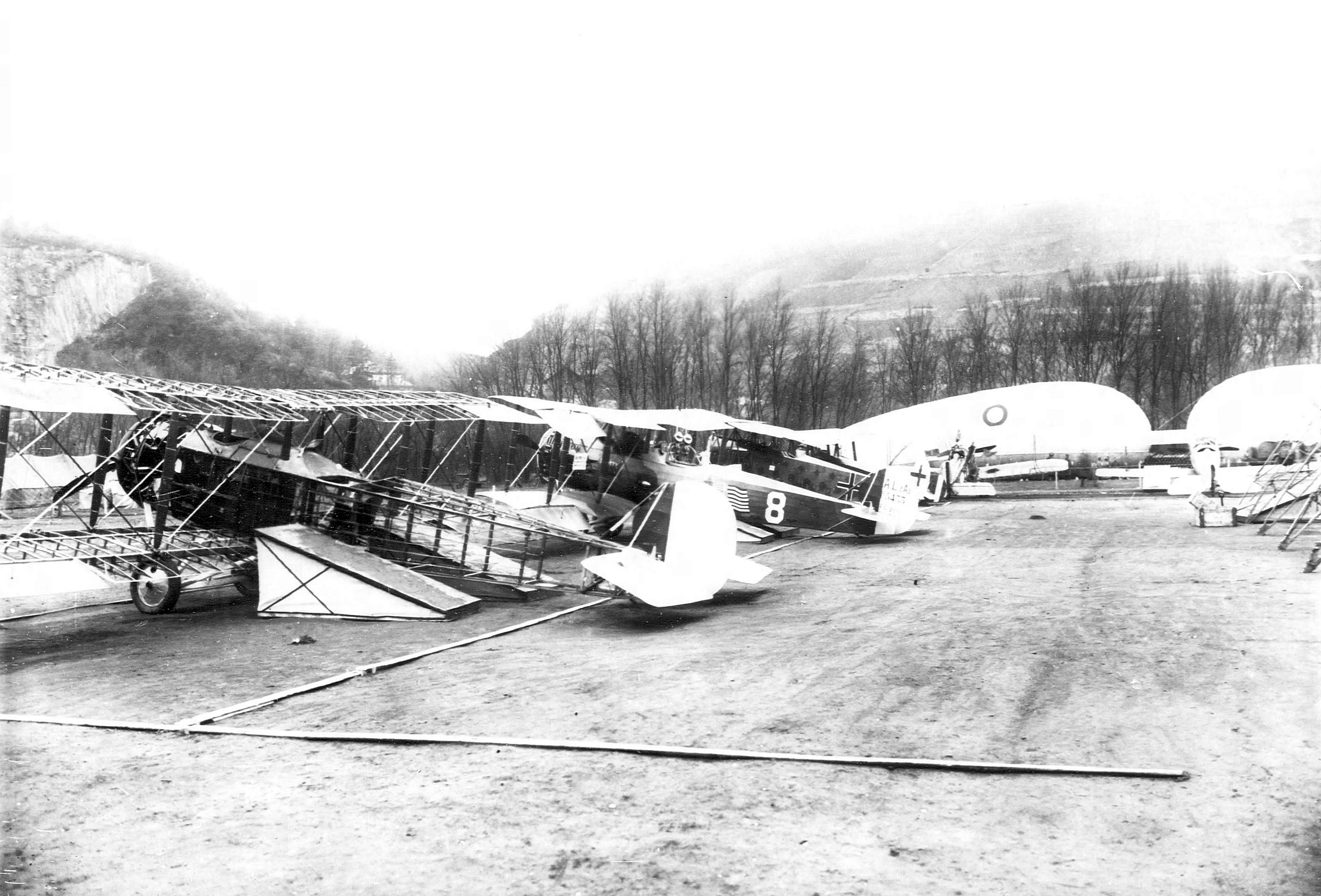 1st Aero Squadron Salmson 2A2 observation plane on display equipped for duty over the lines as well as an 2A2 stripped of its canvas showing its methods of construction. Coblenz Air Show, April 1919